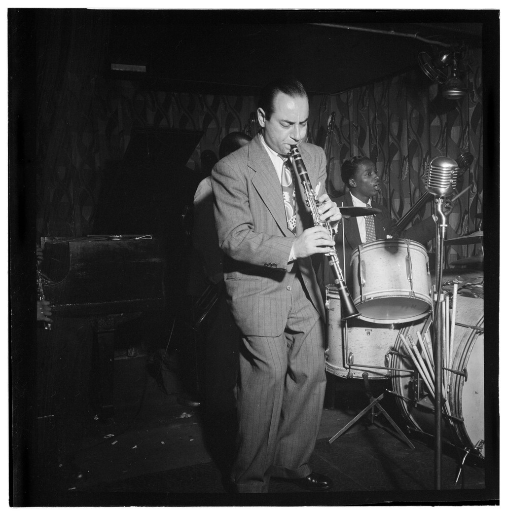 Peanuts Hucko, Famous Door, New York, between 1946 and 1948